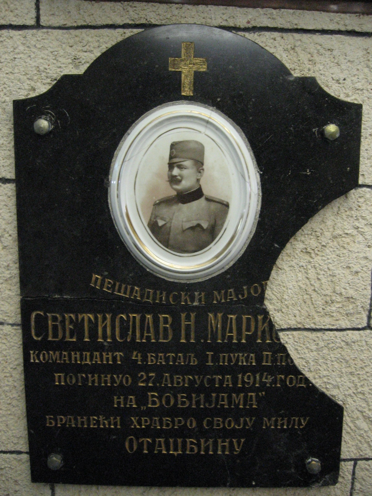 Church in Krupanj - Monument to war heros